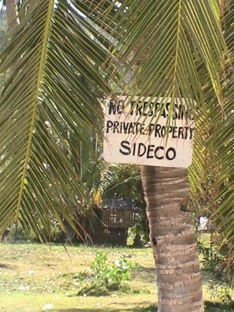 A "No Trespassing" sign on a tree. Sicogon Island, 2009